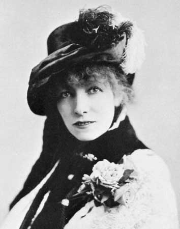 Sarah Bernhardt (1844-1923) in a portrait by Napoleon Sarony